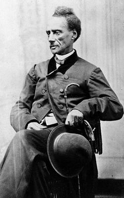 The image of American abolitionist Charles Lenox Remond (1810–1882)